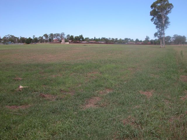 Blacktown Native Institution Site: Blacktown Native Institute - looking east from Richmond Road